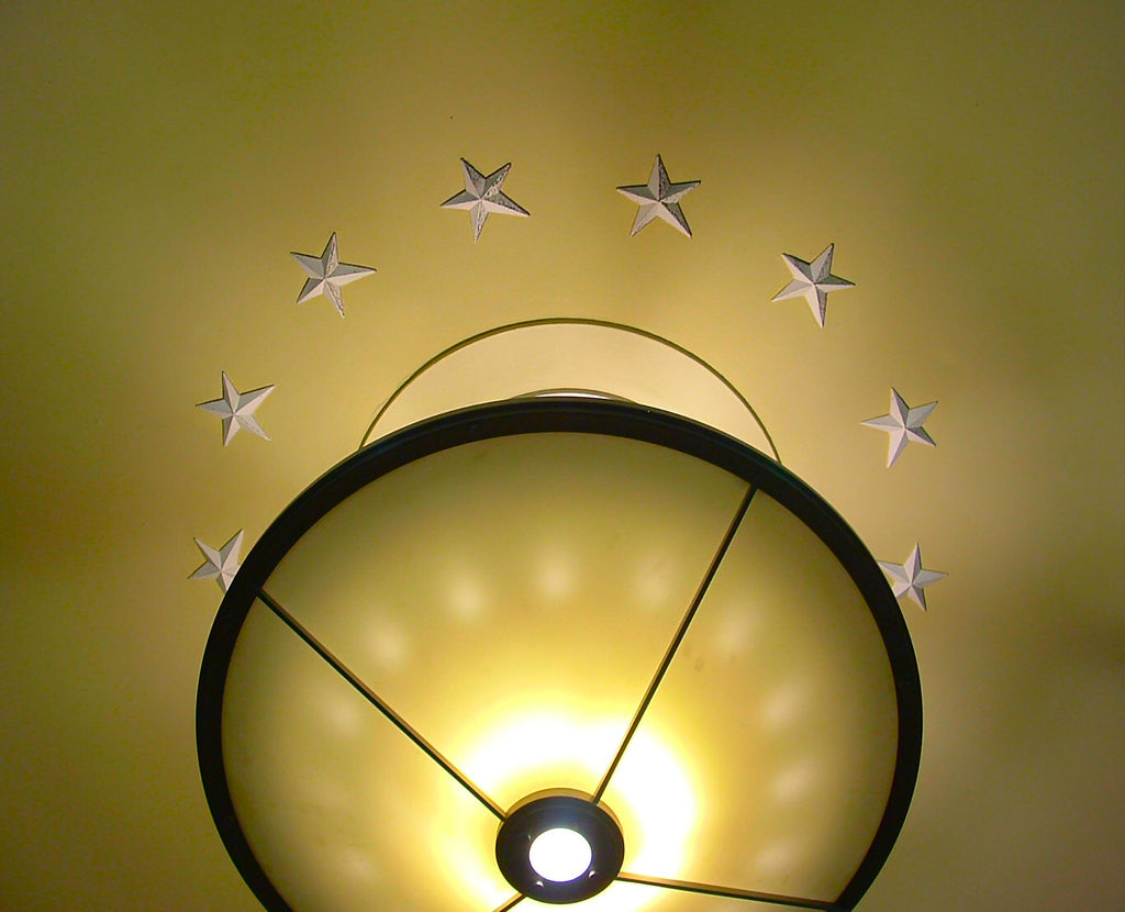 Art deco styled ceiling light fixture inside the United States Post Office and Court House in Galveston, Texas, USA.